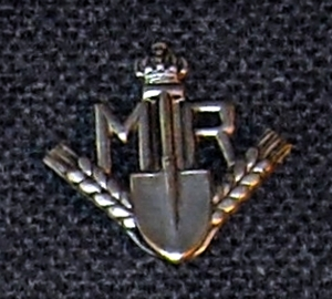 Romanian Youth Work (MTR) Pin